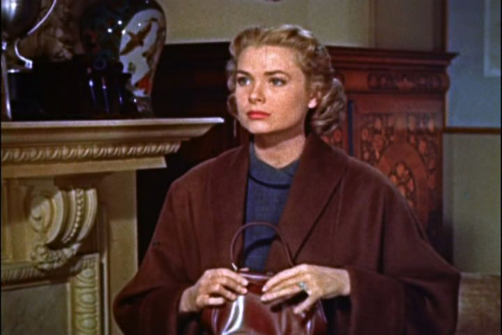 Screenshot of Grace Kelly from the trailer of the film Dial M for Murder